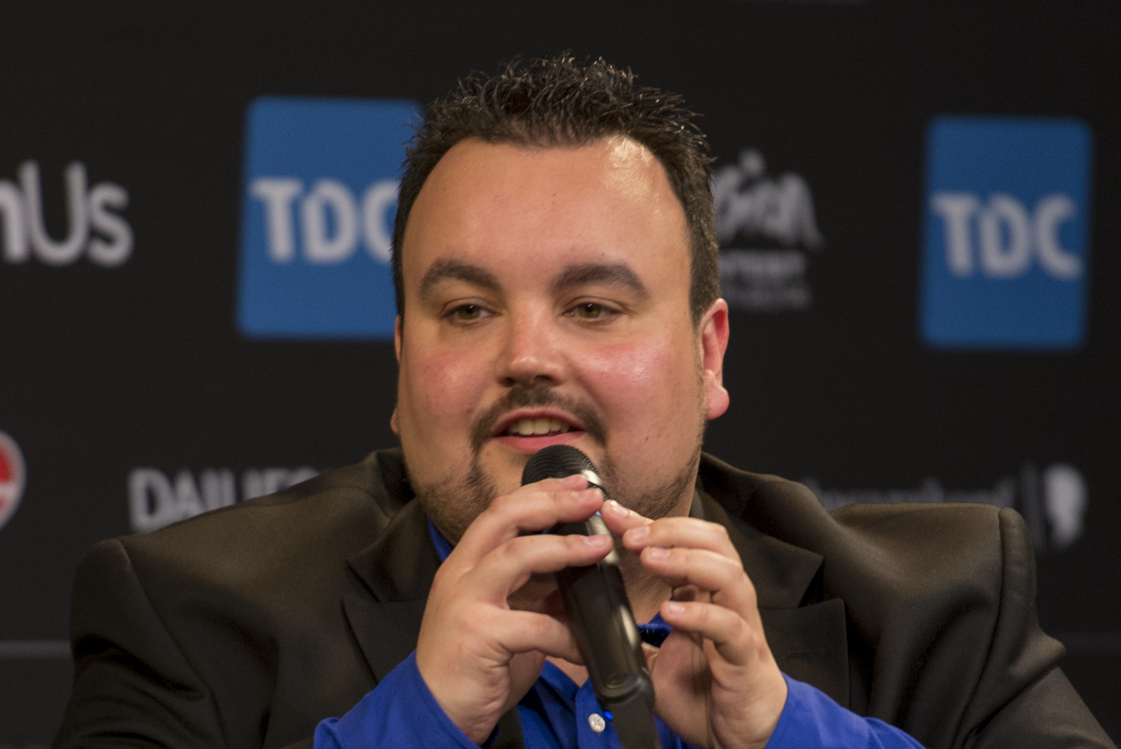 Axel Hirsoux during a Meet & Greet at the Eurovision Song Contest 2014.